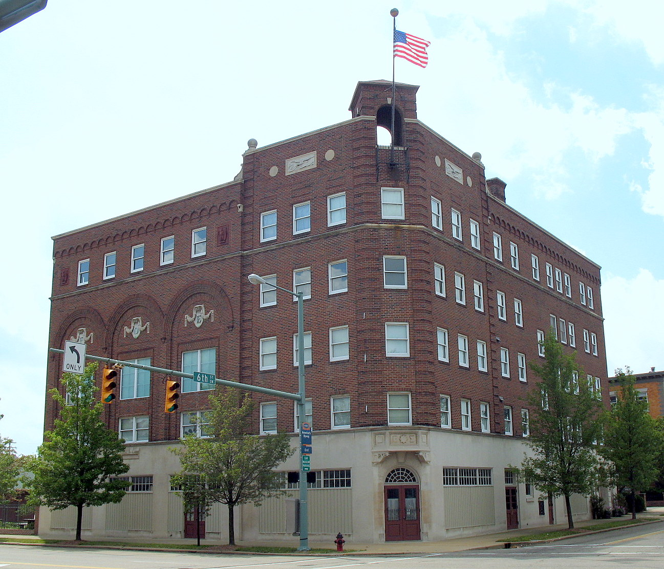 National Register of Historic Places listings in Stark County, Ohio Eagles' Temple, 601 S. Market St., Canton, Ohio